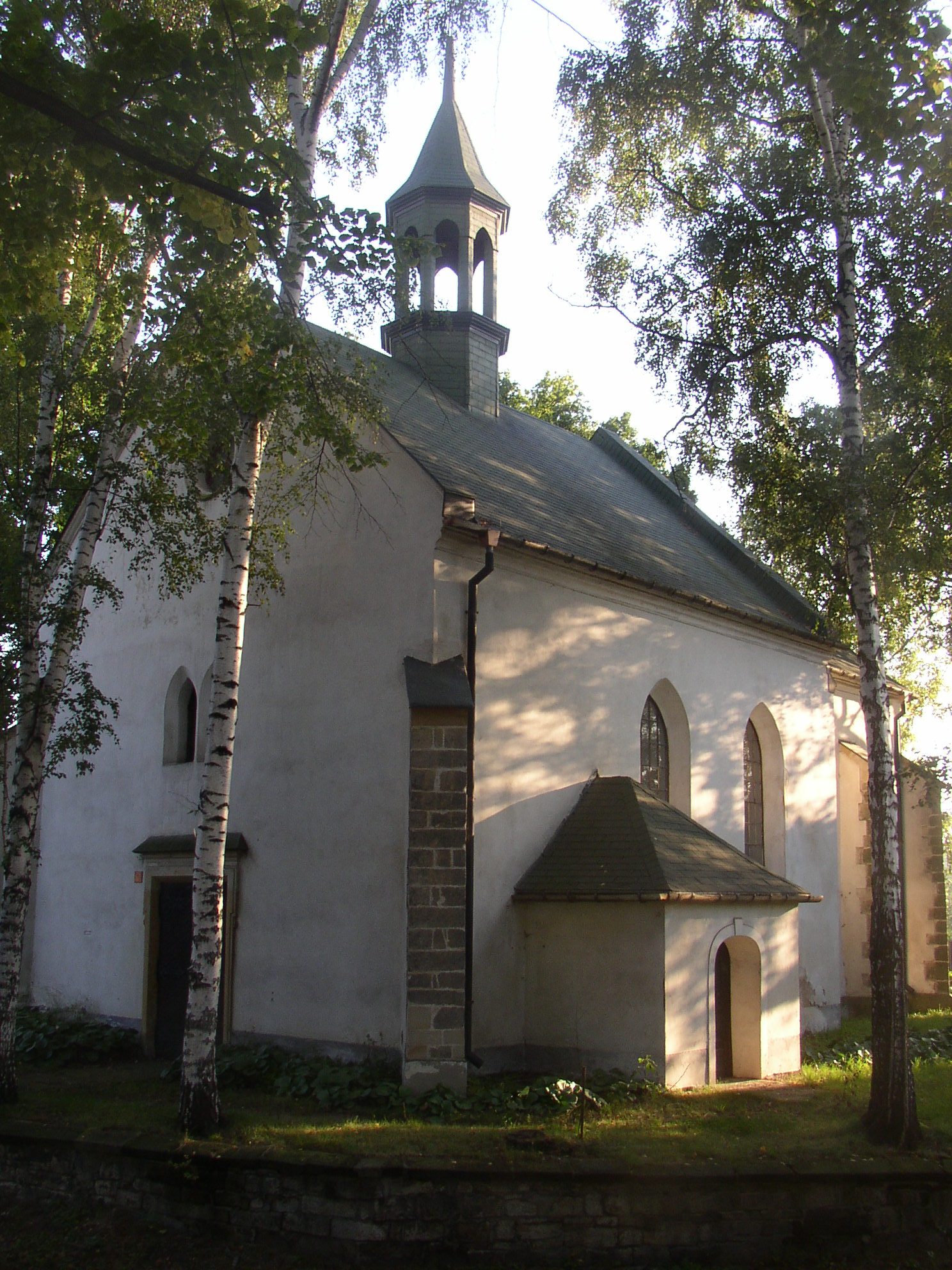 St Andrew church in Nelahozeves, Czech Republic.